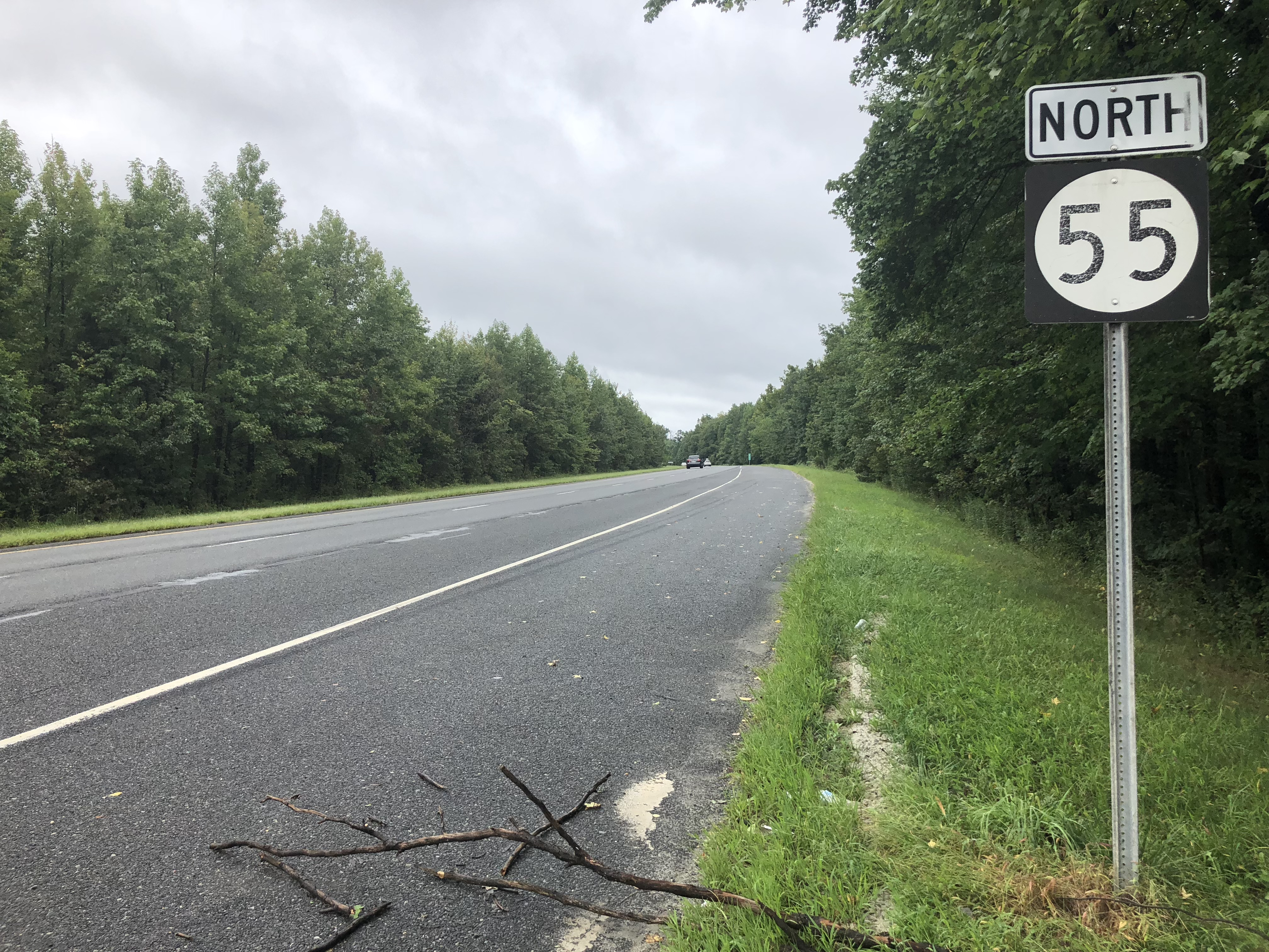 View north along New Jersey State Route 55 (Cape May Expressway) just north of Exit 53 in Mantua Township, Gloucester County, New Jersey